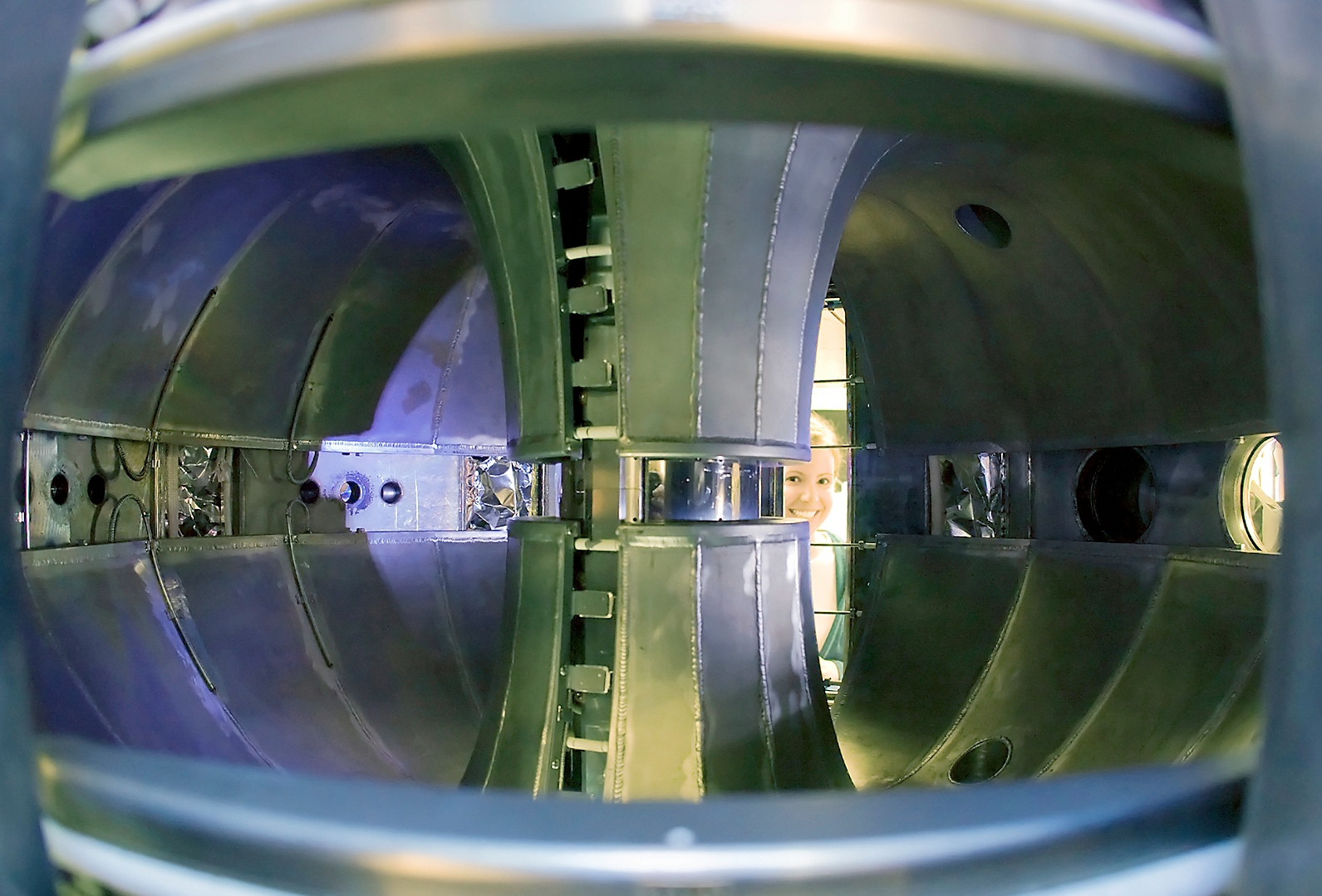 INTERIOR VIEW OF Lithium Tokamak Experiment (LTX) DURING A VENT TO INSTALL DIAGNOSTICS AT PRINCETON PLASMA PHYSICS LABORATORY. For more information or additional images, please contact 202-586-5251.